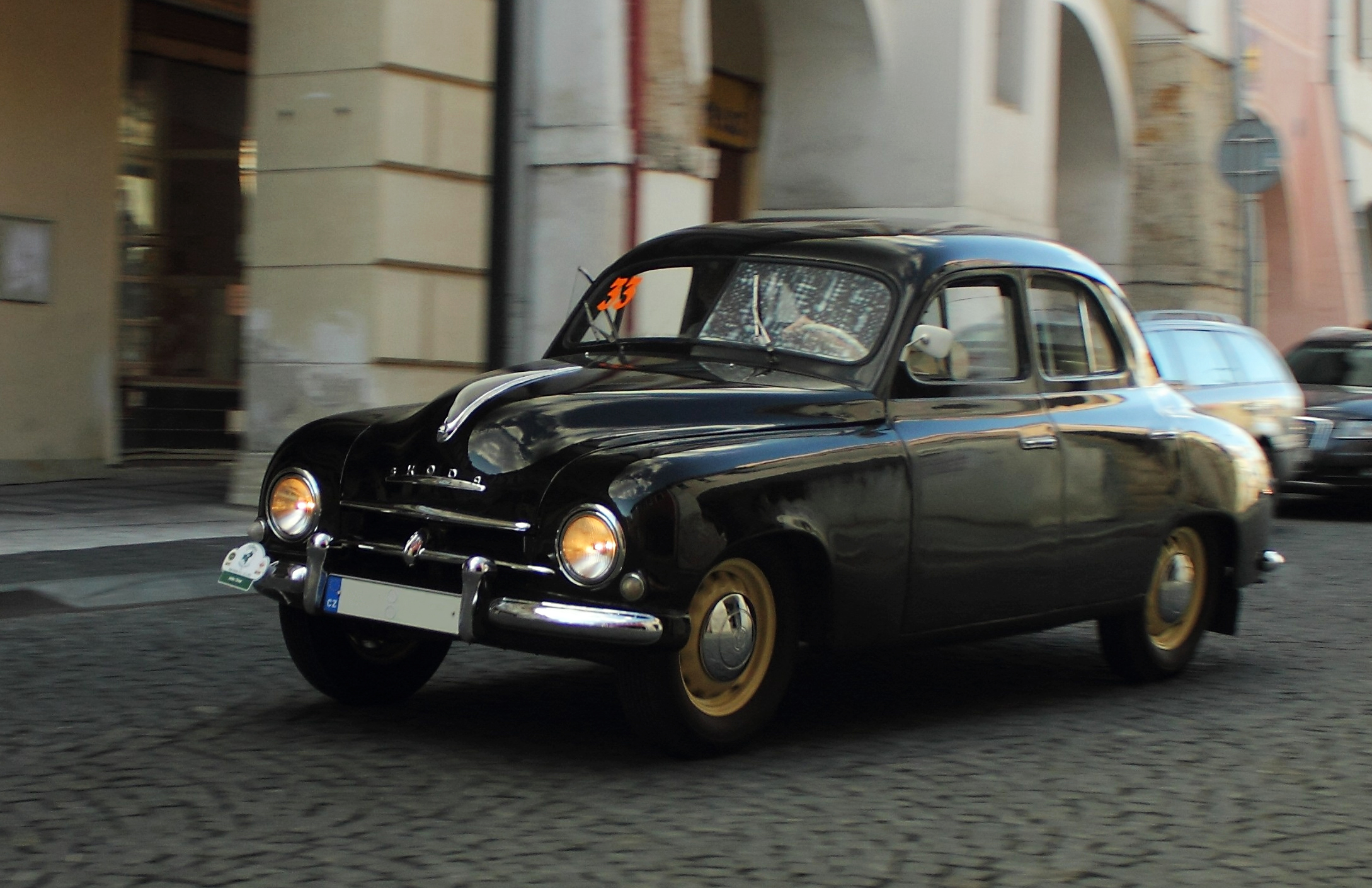 Škoda 1201 Sedan (1957), 2013 Oldtimer Bohemia Rally, Mladá Boleslav